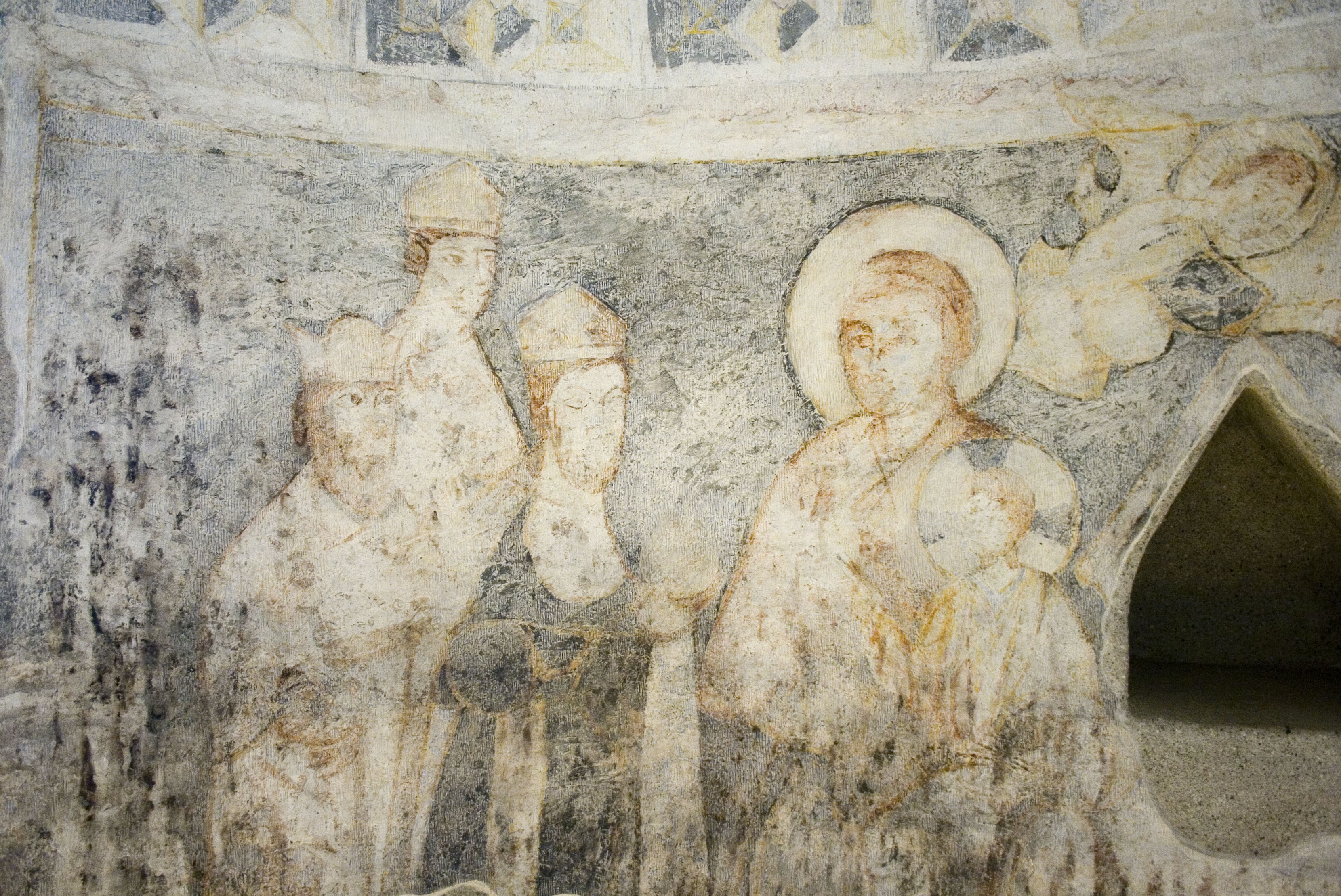 Hungary, County Zemplen, Vizsoly Reformed Romanesque church - Adoration of the Magi - XIV century wall mural